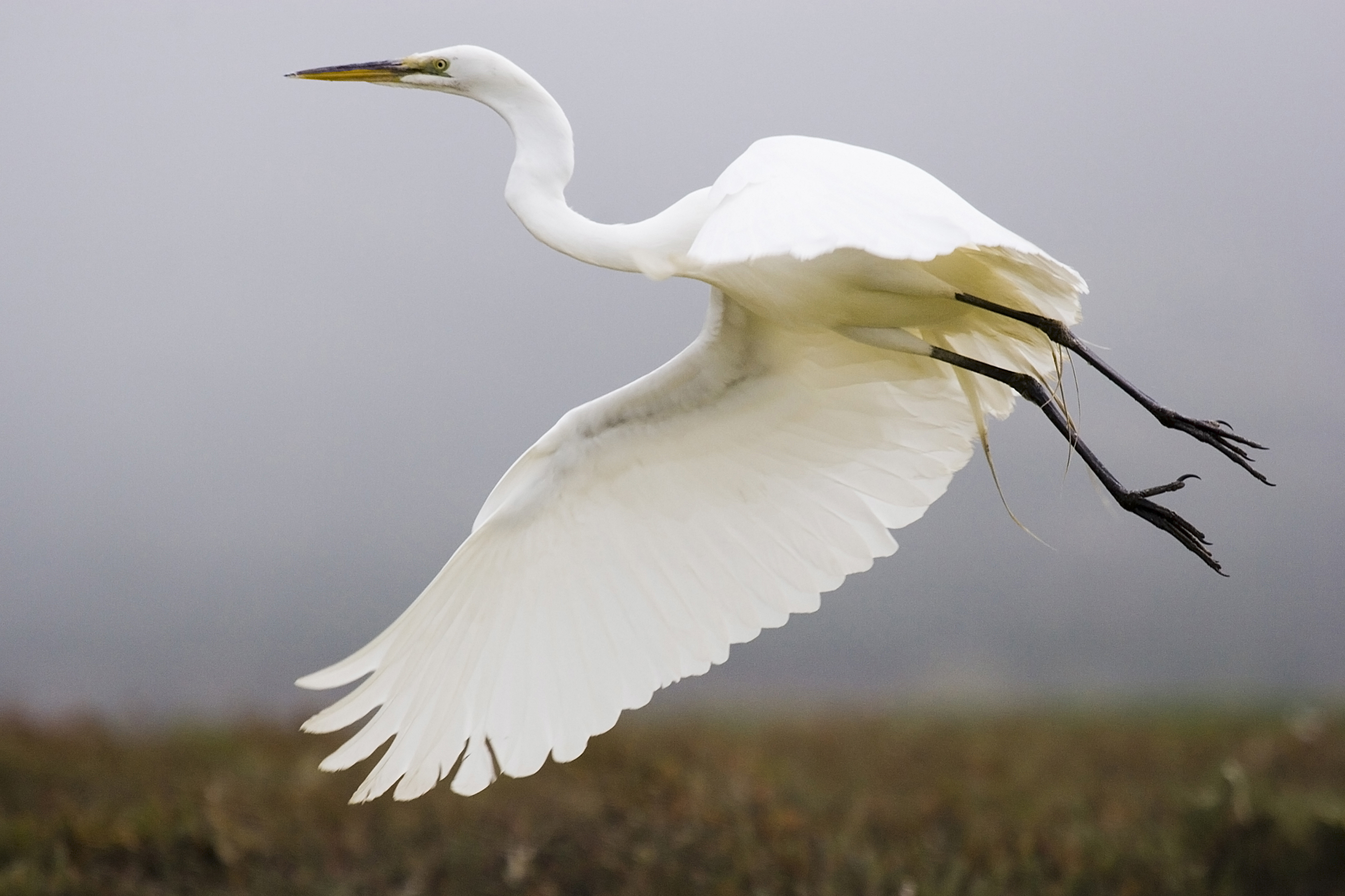 Great Egret (Ardea alba), Morro Bay, CA.